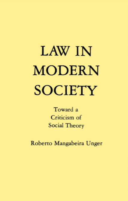 Image of cover of Law in Modern Society, a book by Roberto Mangabeira Unger